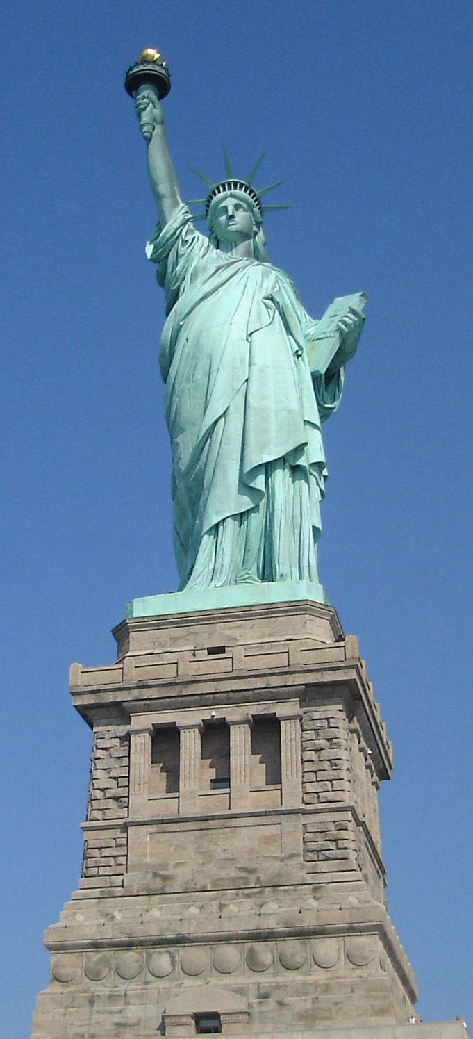 Statue Of Liberty